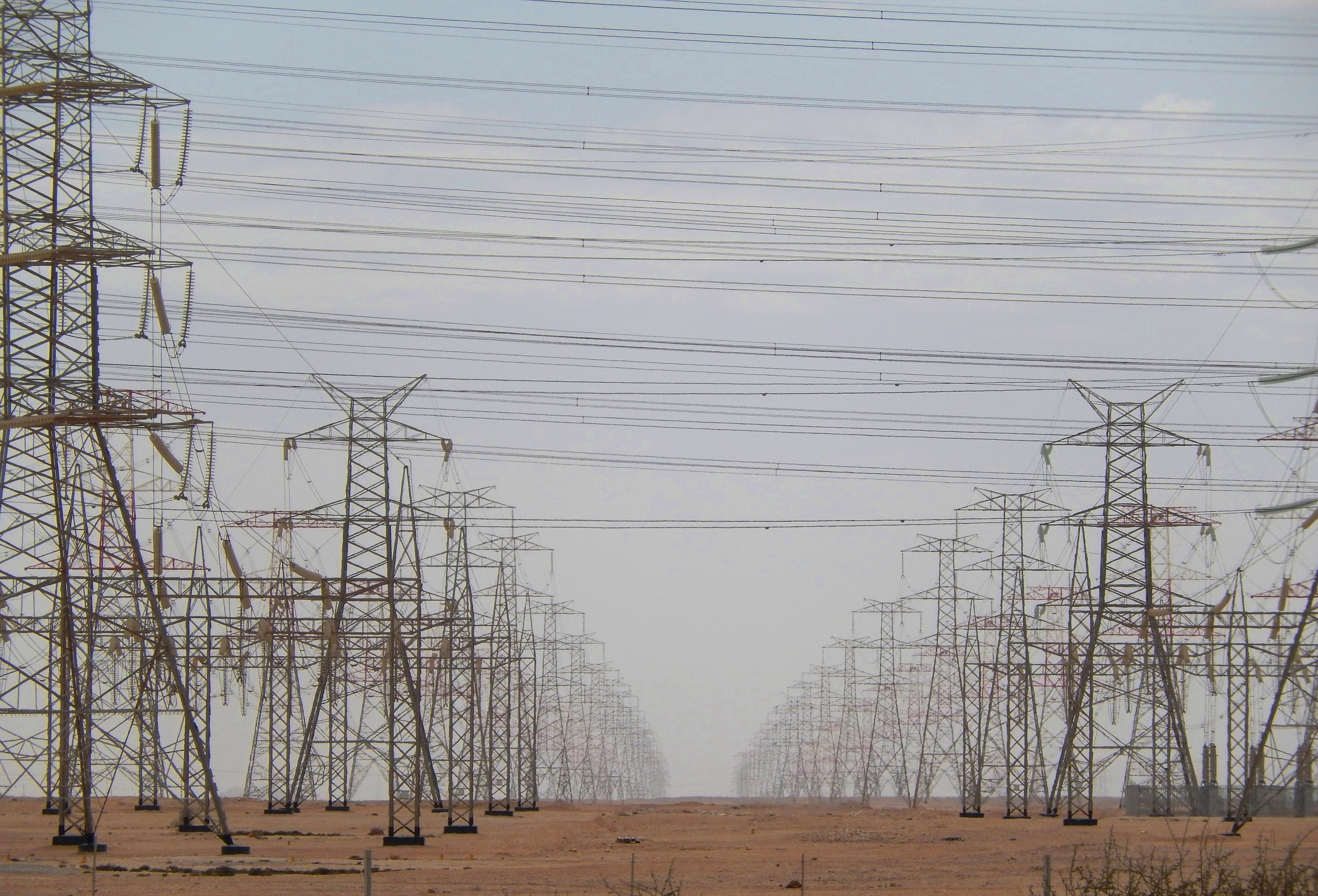 Power lines in the municipality of Al Khor in northern Qatar, not far from the village of Umm al Quhab (also known as Umm al Qahab).